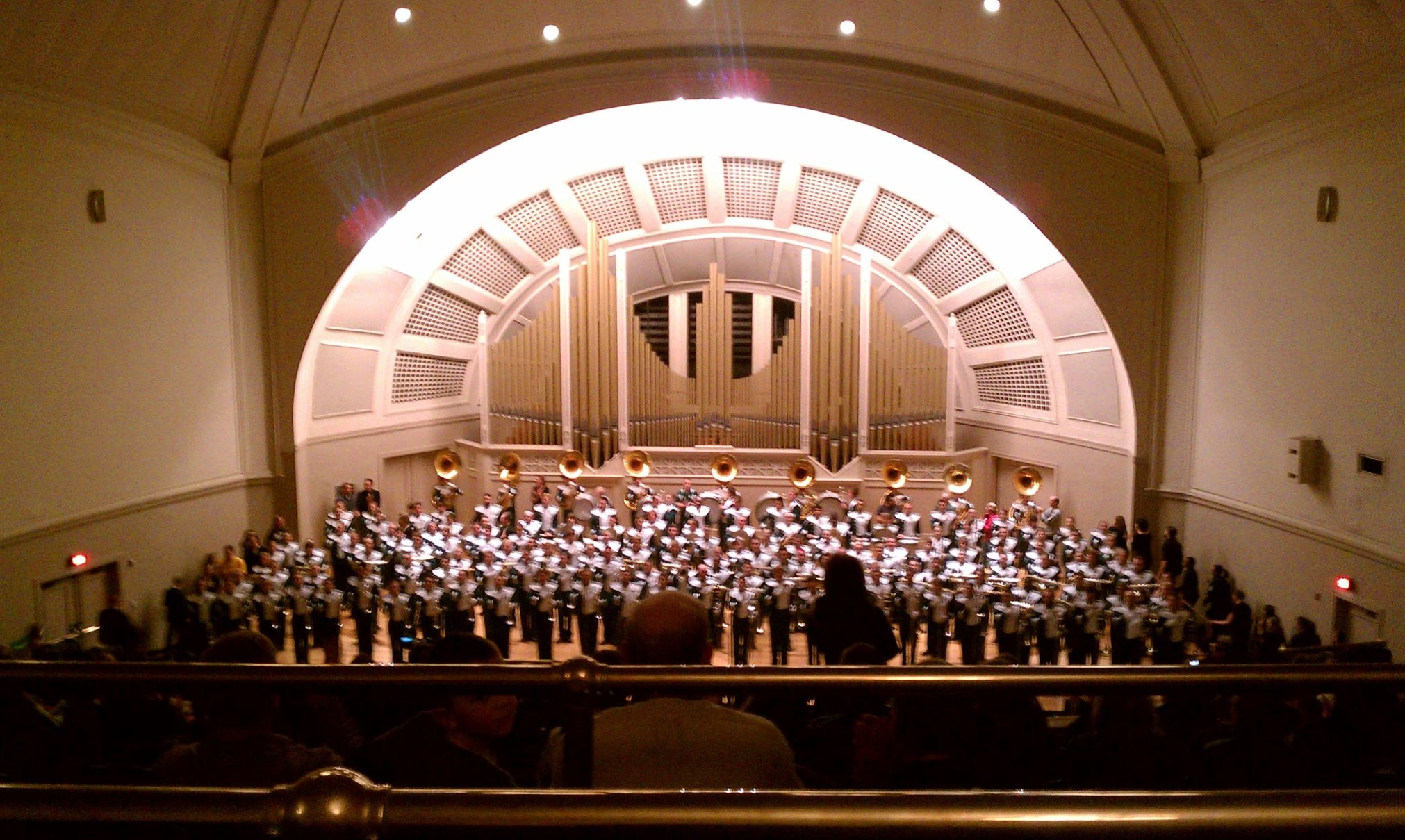 The Eastern Michigan University Marching Band in Pease Auditorium, viewed from near the center of the balcony.